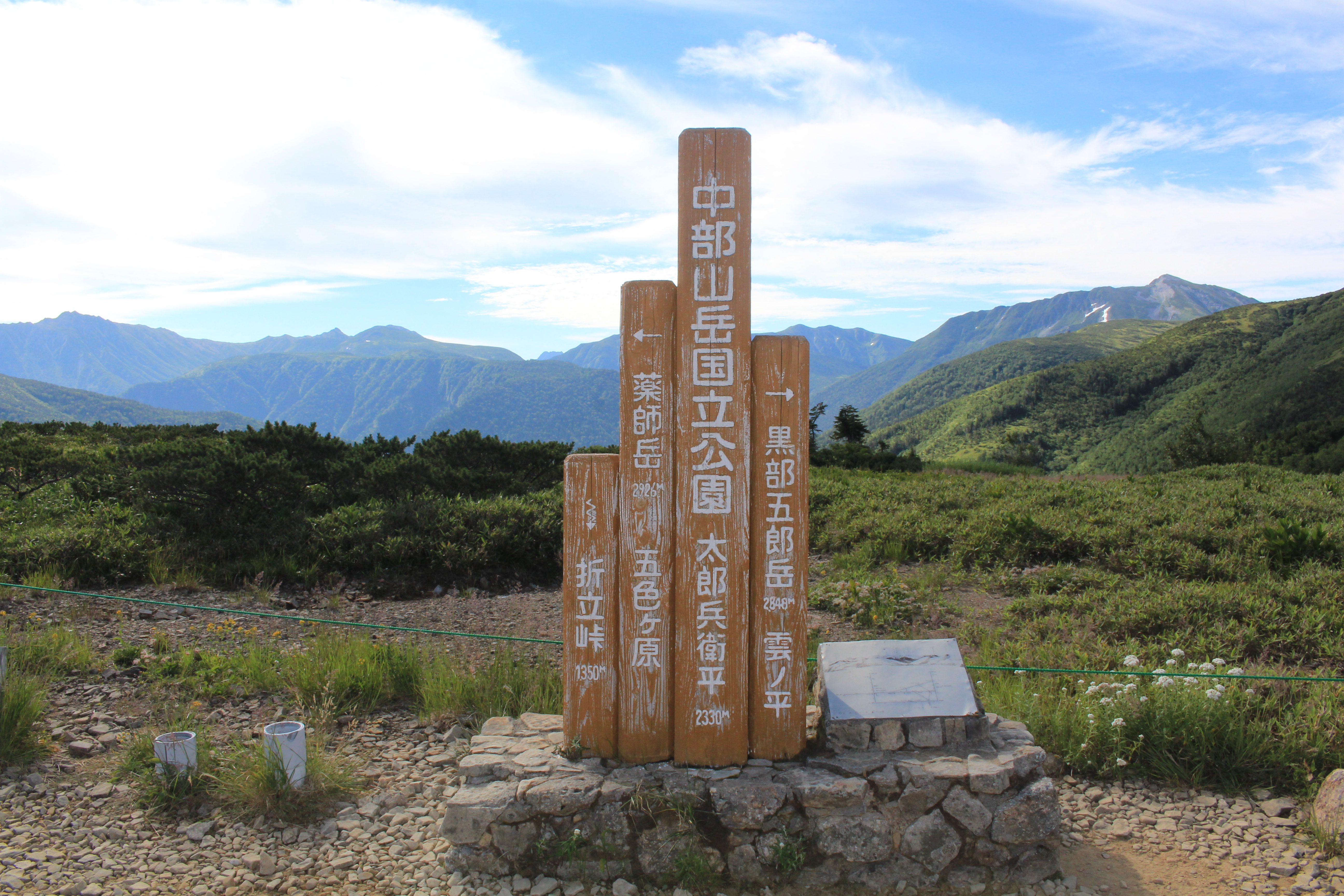 Tarobedaira, in Chubu-Sangaku National Park, Mountains Taro of Hida Mountains, Toyama, Toyama prefecture, Japan.